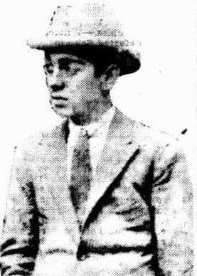 Cyril Pearl, writer